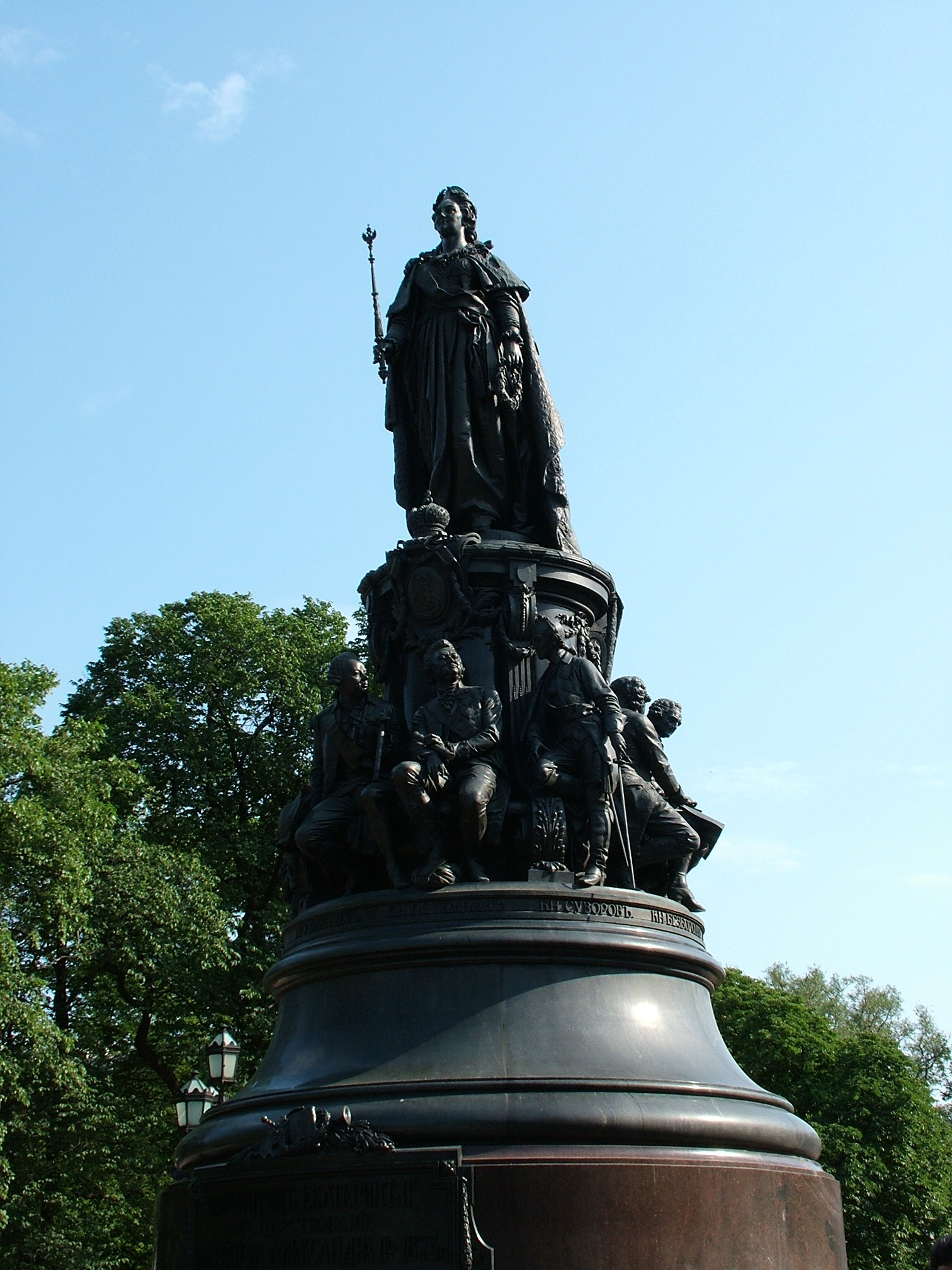 Statue of Catherine II. St.Petersburg, Russia.